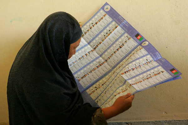 An Afghan woman looks over the ballot during the successful parliamentary and provincial elections held on September 18. The elections are a major step forward in Afghanistan's development as a democratic state governed by the rule of law.